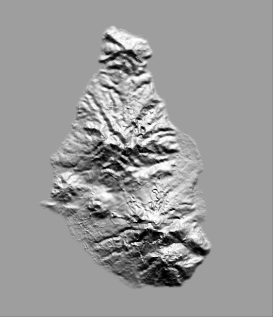 Shaded relief image of the island of Montserrat (sun azimuth: 80.0, sun elevation: 15.0). Image produced from a ASTER digital elevation model (DEM) with the GDAL open-source library. Contains residual anomalies and artifacts such as mole runs and pits. Resolution: 1 pixel = 30 meters. Projection: lat/long WGS84. ASTER GDEM is a product of METI and NASA.